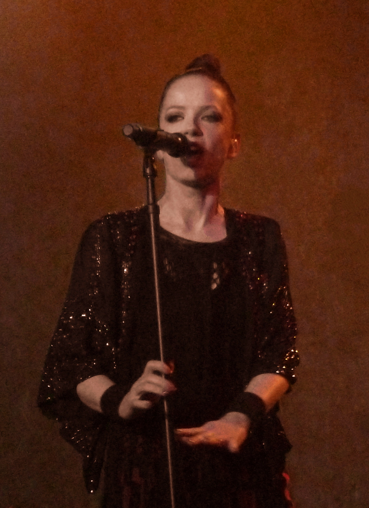 Garbage, Shirley Manson